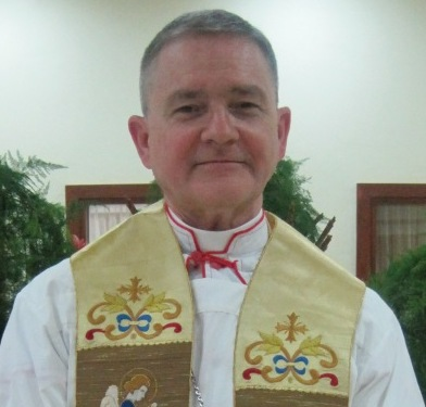 Photograph of His Excellency Archbishop Edward Joseph Adams, while serving as Apostolic Nuncio to the Philippines. Photo was taken during his pastoral visit to the Archdiocese of Zamboanga.